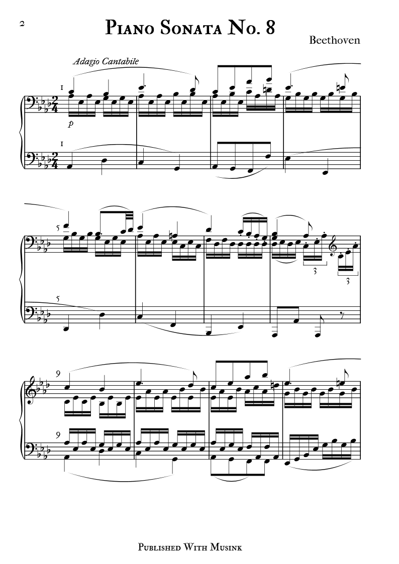 A page of music published (to PNG) with Musink Lite 1.0.0.4. Score is from Beethoven's 8th Piano Sonata (2nd Movement)